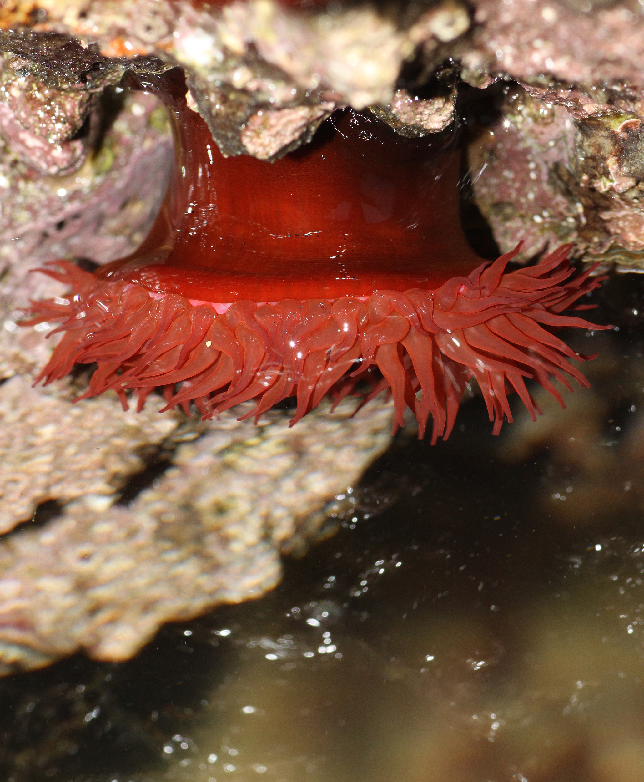 Beadlet Anemone, Actinia equina, Family: Actiniidae, Location: Croatia, Istria, Porec, Lanterna